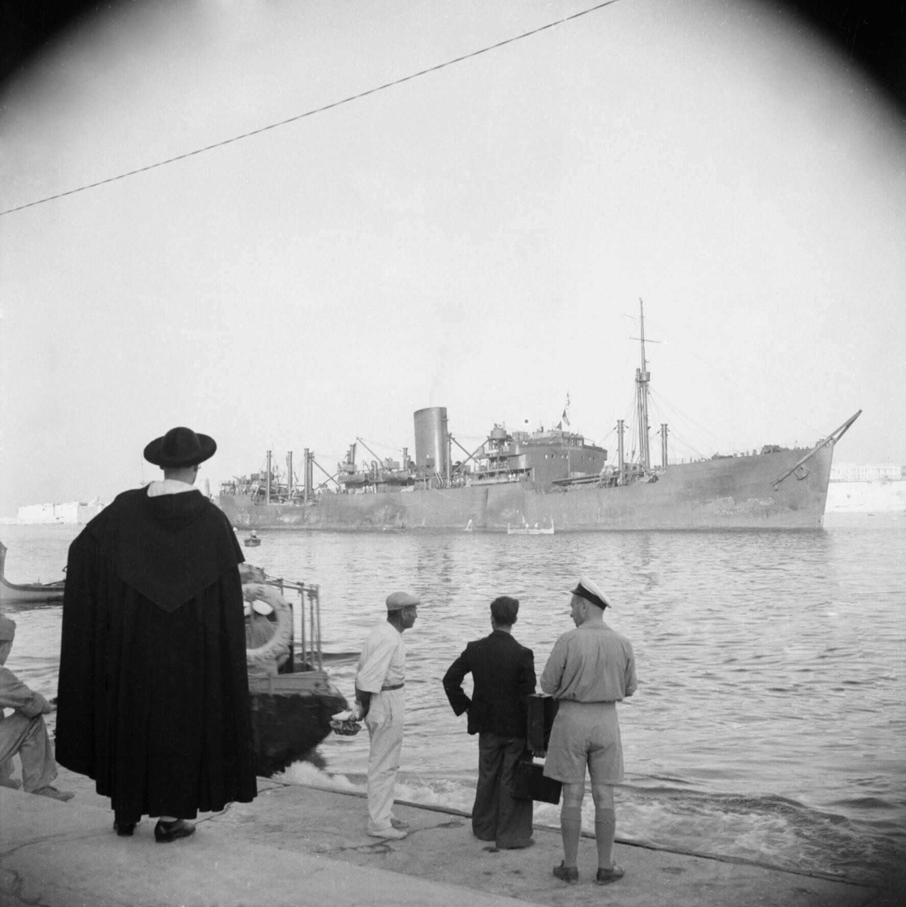 Operation Pedestal, August 1942 13 August: Arrival of the first ships at Malta: A Maltese priest watches Melbourne Star come to her moorings.